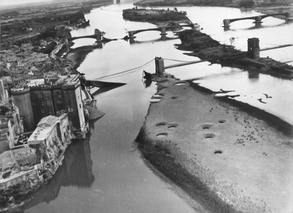 Allied airmen destroyed these bridges over the Rhone River, at Tarascon in southern France, to hamper the German retreat. Islets in the river are pock-marked with bomb craters.